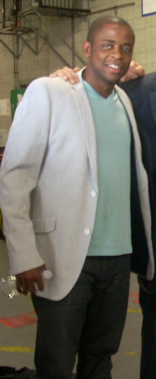 Actor Dulé Hill – Comic-Con 2009, Backstage at the "Psych" Panel - San Diego - July 23, 2009.